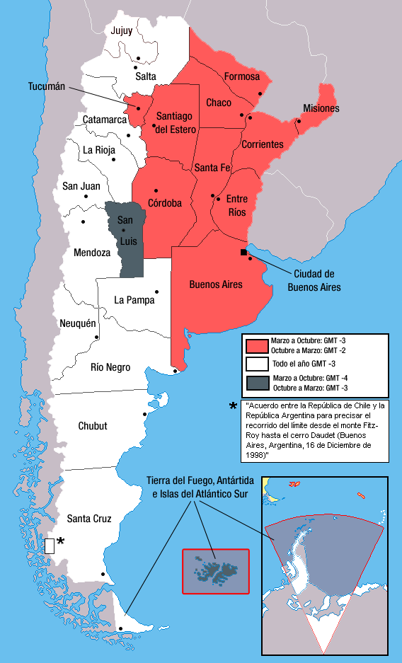 The Argentine provinces that changed their time zone (on October 19, 2008) to UTC -2 are coloured in red. Those not coloured remained at UTC -3.